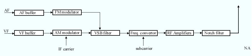 TV transmitter